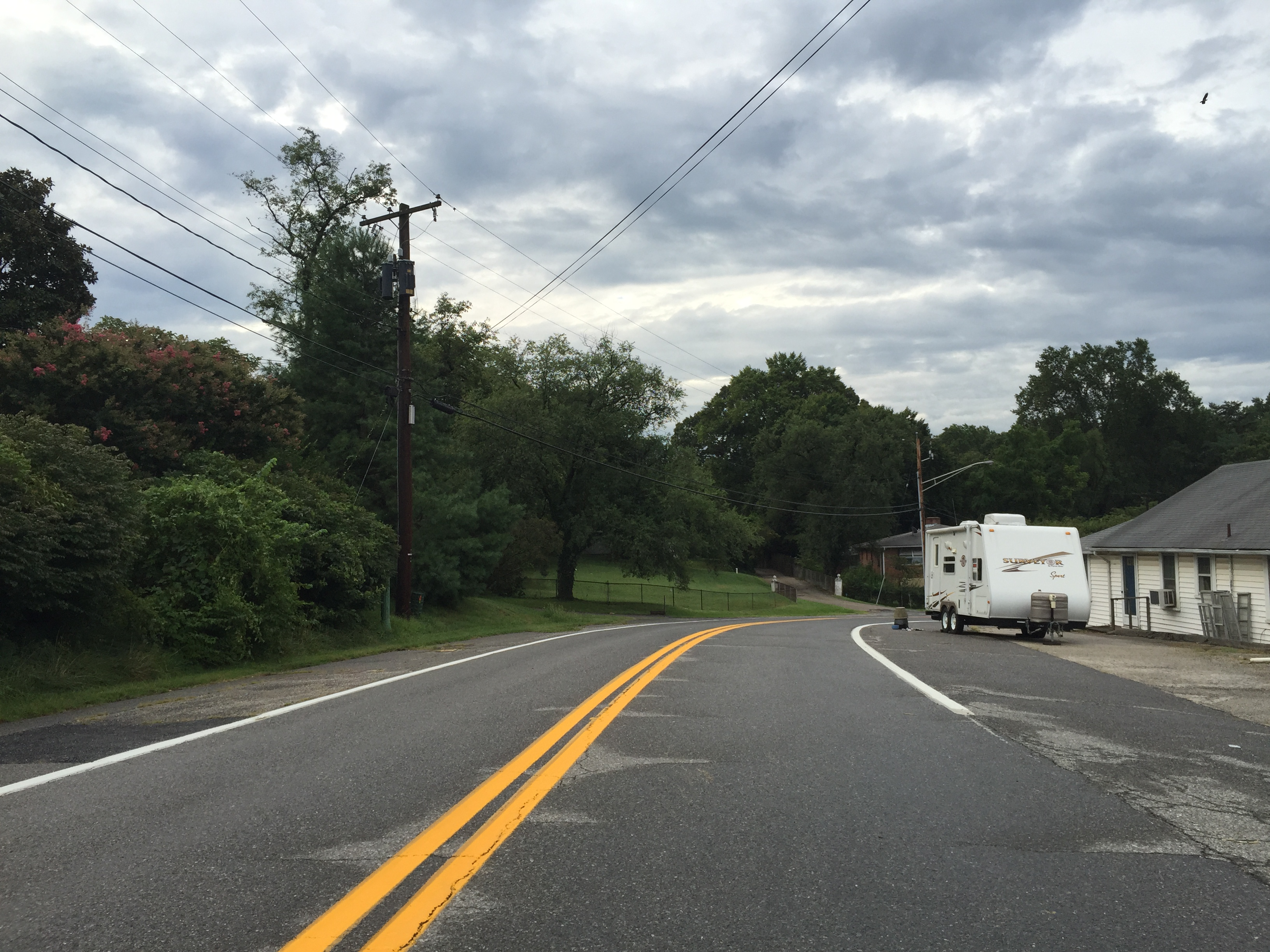 View south at the north end of Maryland State Route 783 (Riverview Avenue) in Parole, Anne Arundel County, Maryland